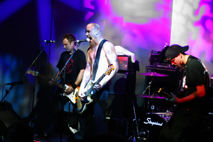 Nick Oliveri & the Mondo Generator playing live at Funktion Rooms 03.12.06.nick oliveri + the mondo generator